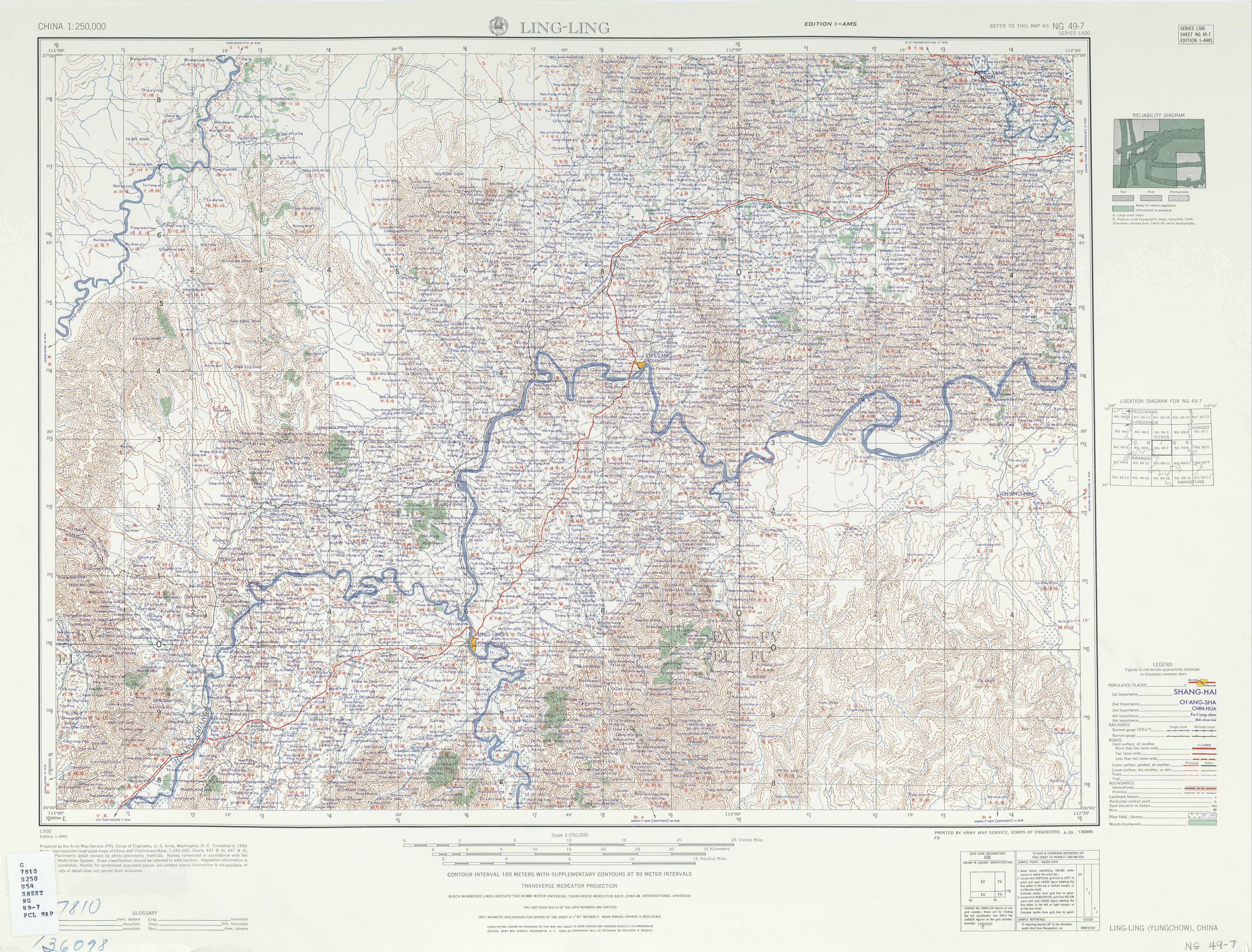 China AMS Topographic Maps